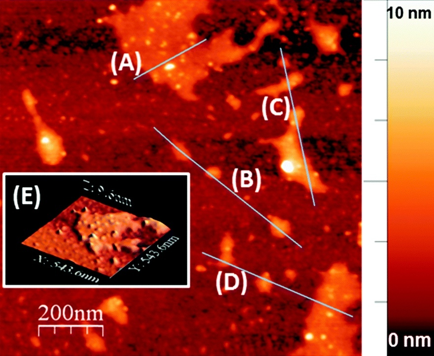 Atomic force microscopy images of few-layer phosphorene sheets produced by ultrasonic exfoliation of black phosphorus in N-methyl-2-pyrrolidone for 24 h and spin-coated onto a SiO2/Si substrate